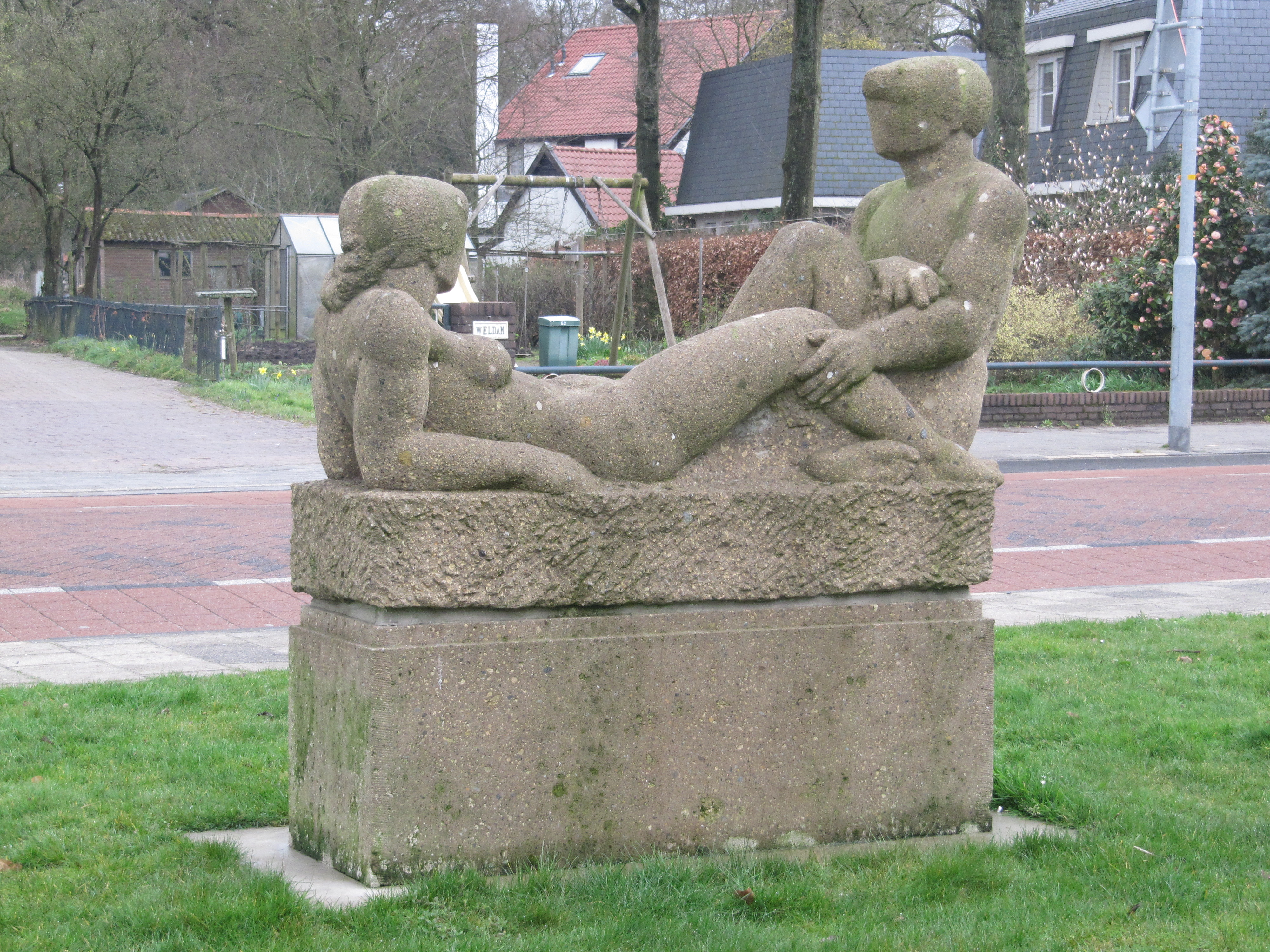 Statue 'De Volmaakte Mens' (The Perfect Human Being) created by Gerard Overeem at the Westerdorpsstraat in Hoevelaken, The Netherlands